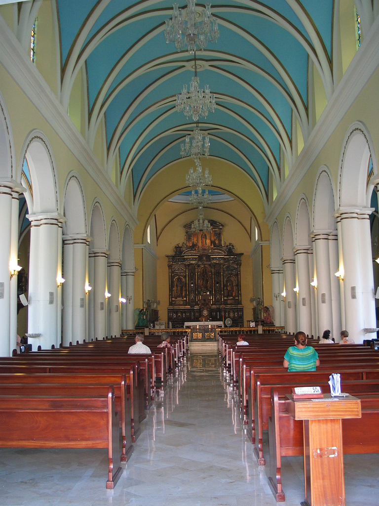 Interior of the Our Lady of Guadaloupe Cathedral (Ponce Cathedral) in the Ponce Historic Zone in Ponce, Puerto Rico